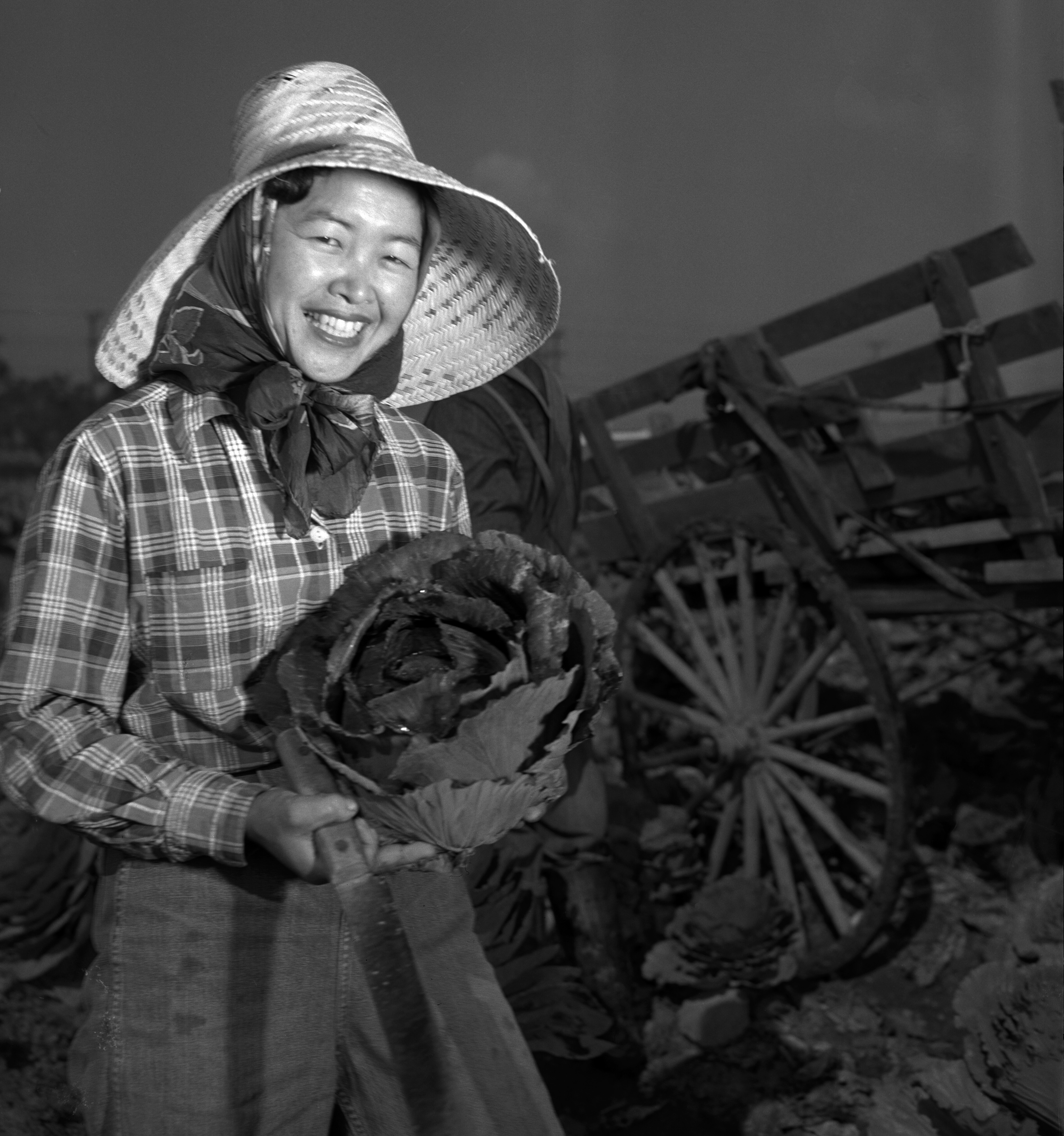 Title: Cabbage farmer Chiyeko Suzumoto in Gardena (Calif.) Publication:Los Angeles Times Publication date:Mar 12, 1951 Source:Los Angeles Times photographic archive, UCLA Library Licensing Note about non-renewal of copyright: [1]